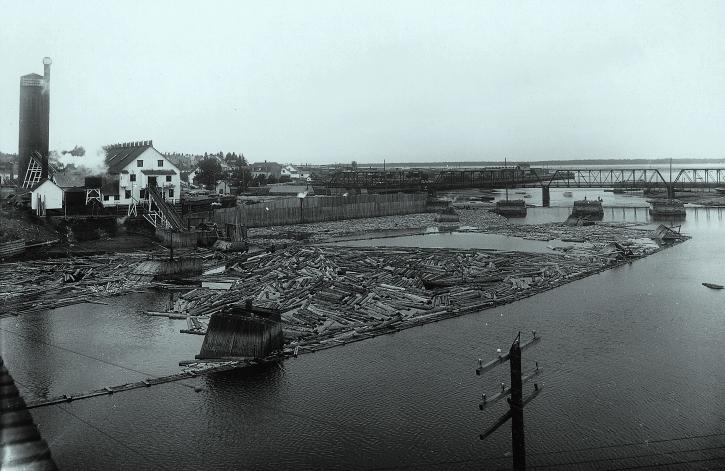 Photograph Lumber mill, Price Company, Rimouski, QC, about 1914, Wm. Notman & Son. Silver salts on glass - Gelatin dry plate process - 20 x 25 cm